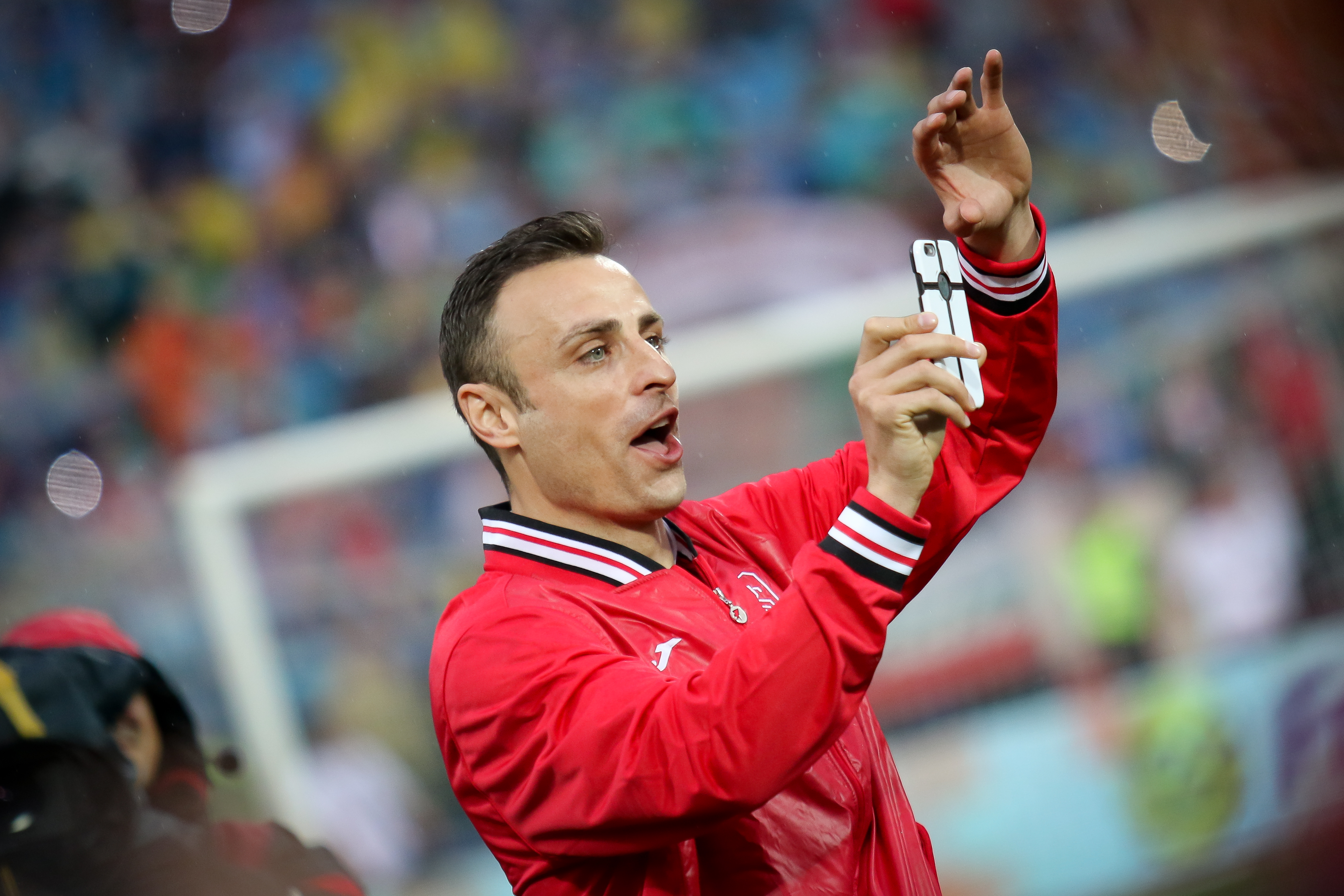 Dimitar Berbatov - Bulgarian footballer, striker, during the show of Hristo Stoichkov - "50 years №8", May 20, 2016